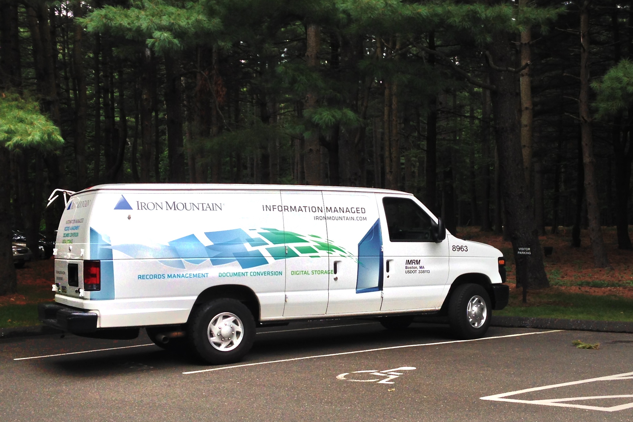 Iron Mountain - Data Pick Up Vehicle, USA - July 2013